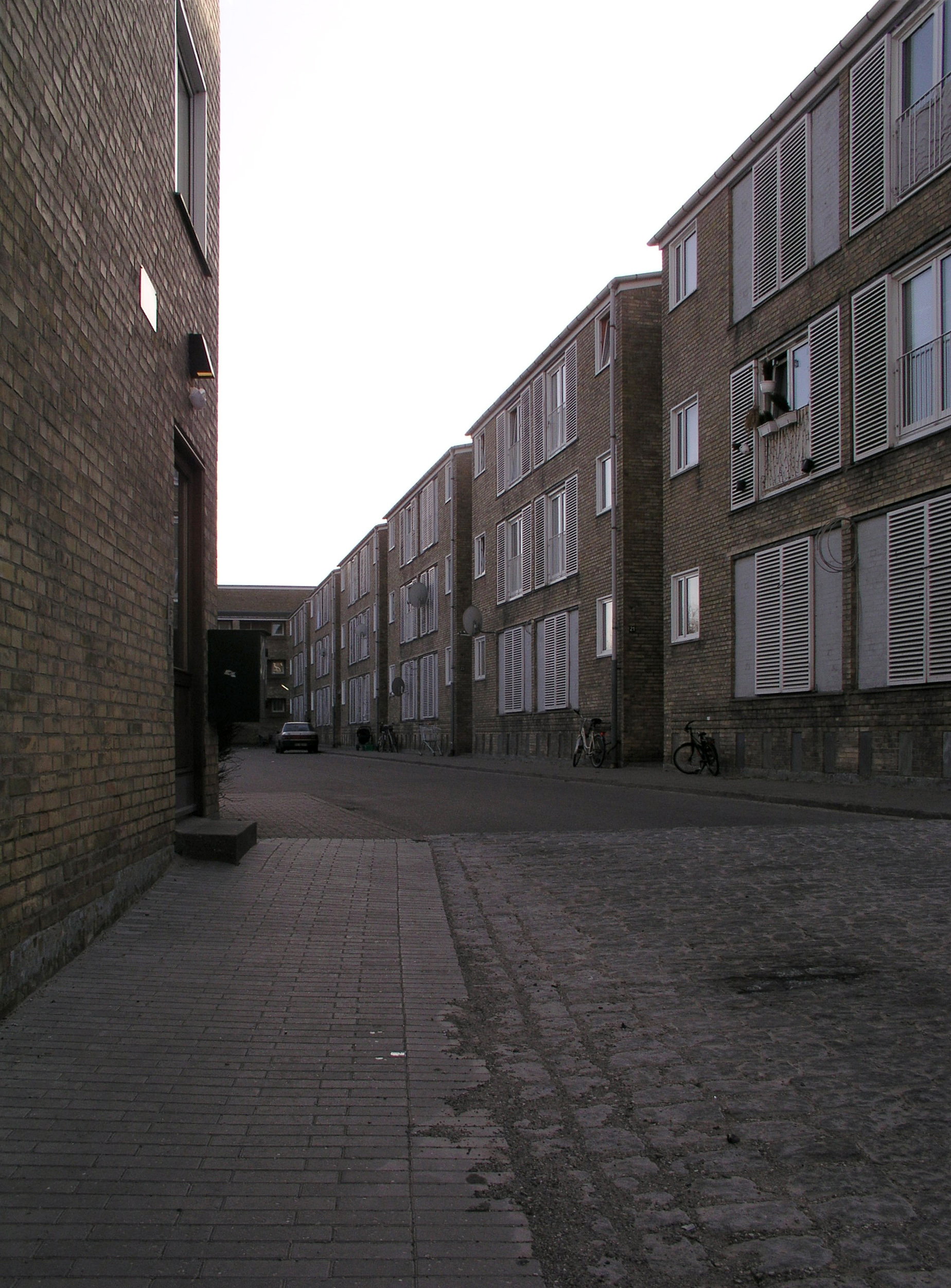 tingbjerg social housing, copenhagen, c.1950-1972. architect: steen eiler rasmussen. many influences come together in steen eiler rasmussen's postwar essay in urbanism, tingbjerg: his liking of urban spaces, repetition, and anonymous architecture bespeak his origin in nordic neoclassicism; there is the klint school's reactionary insistence on local craft, masonry in this case; also rasmussen's love of all things English shows itself in street scenes resembling at times a garden city and at times a mining town...finally, there is more than a hint of Italian rationalism. but all that is invisible to most Danes, not because they don't appreciate architecture, but rather because of the almost complete failure of tingbjerg as an urban experiment. its 2000-3000 counsil flats have been used as a social dump by the copenhagen municipality for decades; together with the physical isolation of the neighbourhood this has created an endemic condition of unemployment, substance abuse, and crime. flats are abandoned, shops are boarded up. steen eiler rasmussen knew full well that his major work was a failure and made no effort to hide the fact that a different approach had to be found for public housing. his legacy as a building architect was permanently tainted and his reputation today rests solely on his writings. these days see the early stages of a huge reinvestment in the area. the basic architectural fabric is of a quality that should make change possible even if some of us remain sceptical about what landscape architects can do about social problems... still, as the early modernists well knew, social problems are best adressed with education, jobs, and decent housing. architecture does play a part.